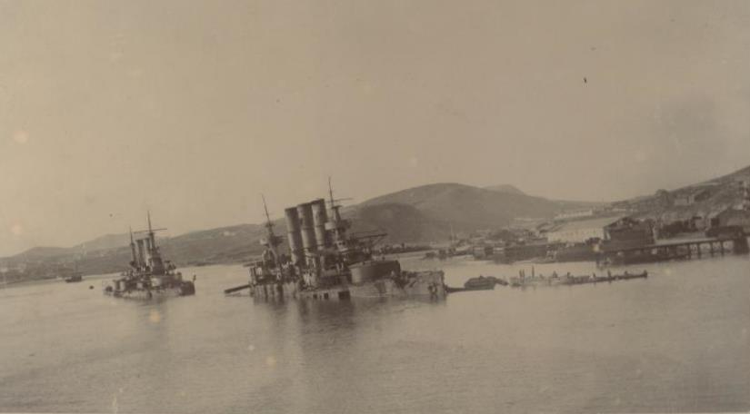 Left: Poltava battleship, right Retvizan battleship sunk in the port of Port Arthur (Russian Empire), photographed on January 4 1905 (the day after the Japanese conquested it), as it appeared to Italian Admiral Ernesto Burzagli (1873-1944), Italian naval attaché in Tokio, who sailed from Yokohama (Japan) on a diplomatic mission to Port Arthur, during the Russo-Japanese War. The original picture, scanned by Emiliano Burzagli, belongs to the Private archive of Burzaghi family, Italy.